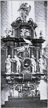 Epitaph for Mayor Johann Siricius in the Marienkirche, Lübeck, destroyed in 1942